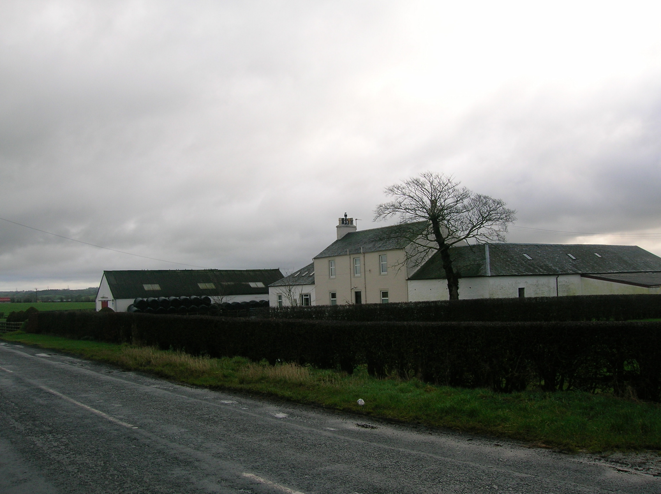 West Lambroughton farm in North Ayrshire. 2007.